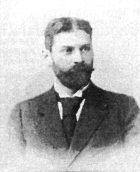 Portrait of Alfred von Scholtz (1850-1934) - civil engineer, Municipal Engineering Inspector 1886-1894 and Municipal Engineering Councillor in Wrocław 1894-1924. Photographed about 1890